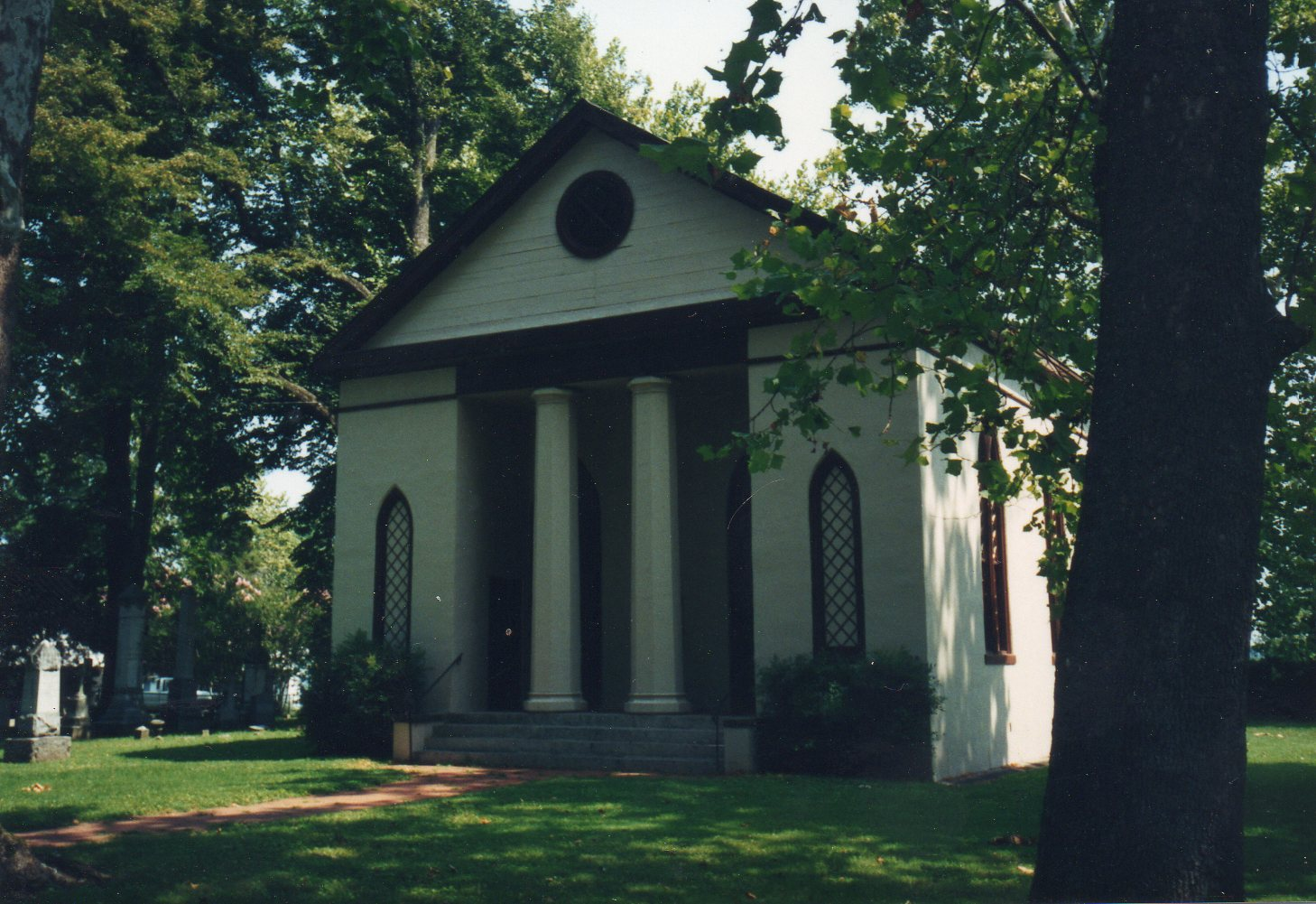 St. Peter's Episcopal Church, Port Royal, Virginia, front elevation